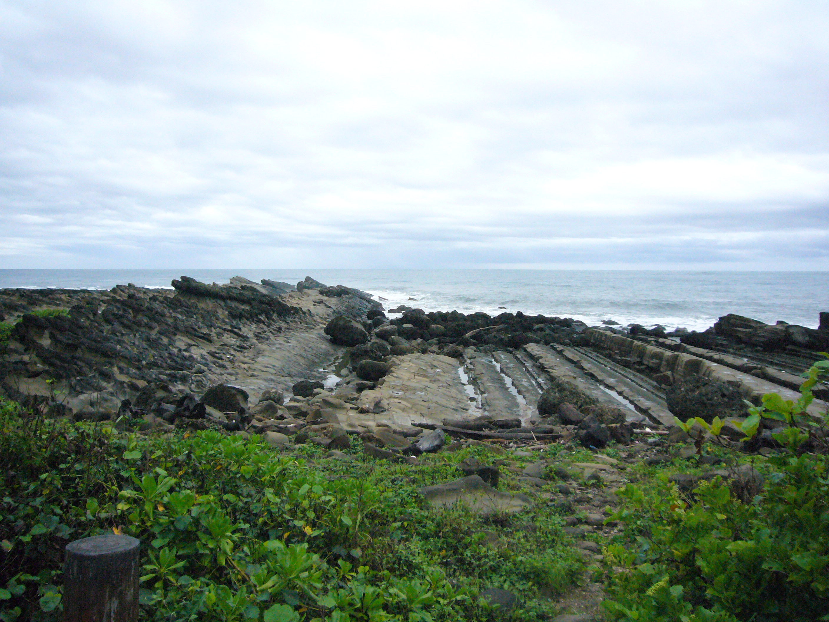 Siaoyeliou in Taitung County, Taiwan, R.O.C.